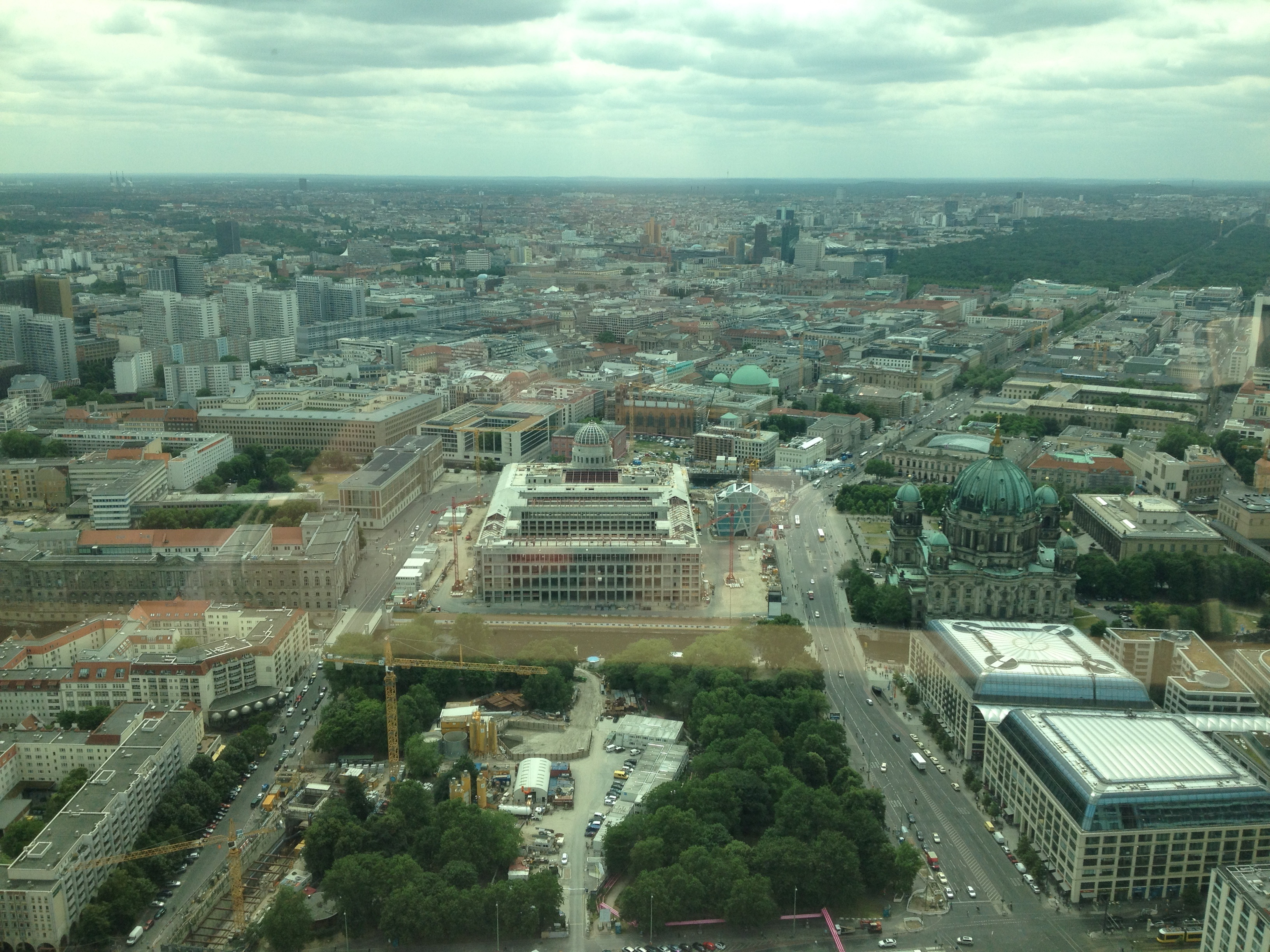 View from Fernsehturm Berlin to Berliner Schloss